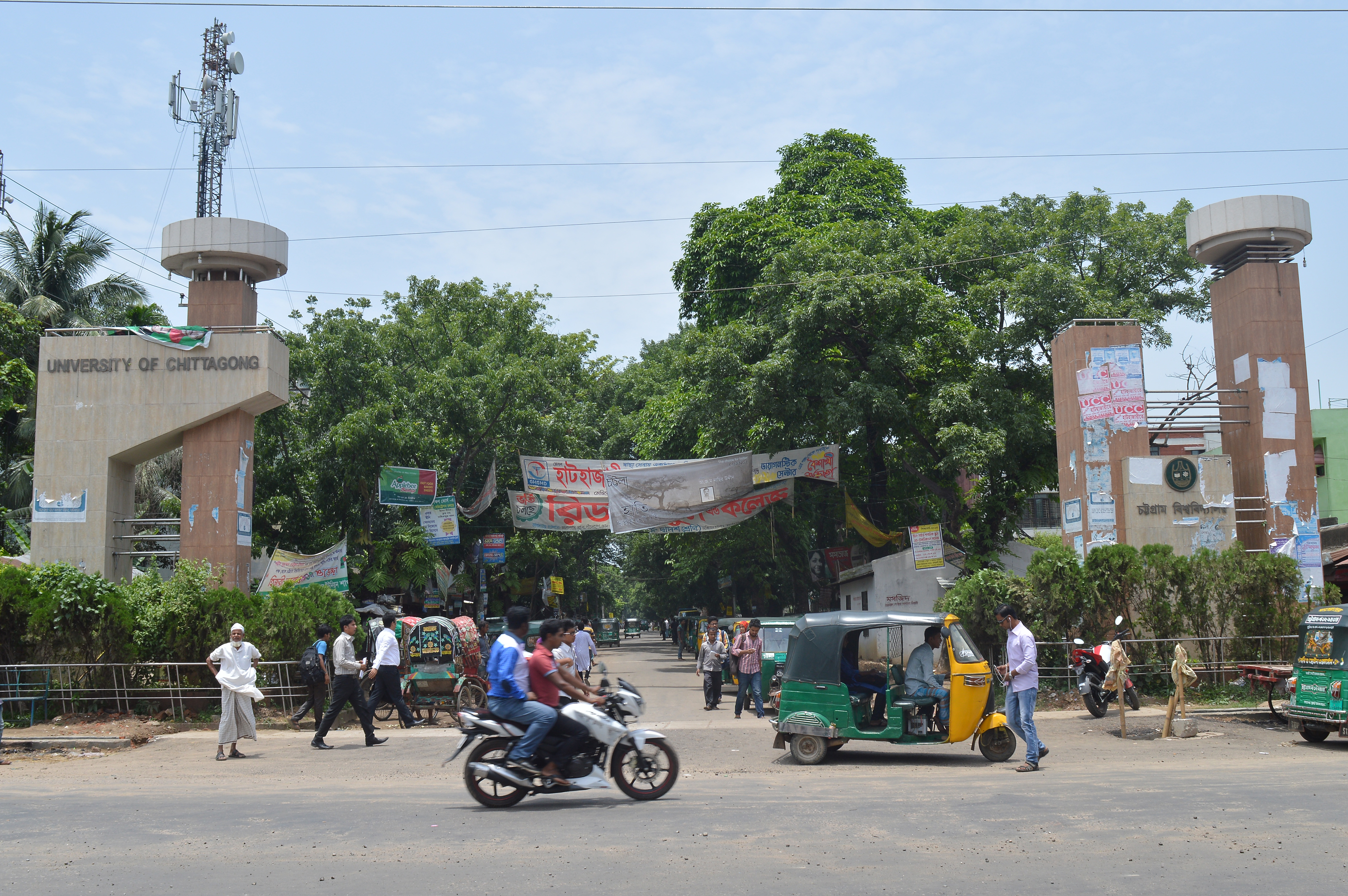 University of Chittagong portal